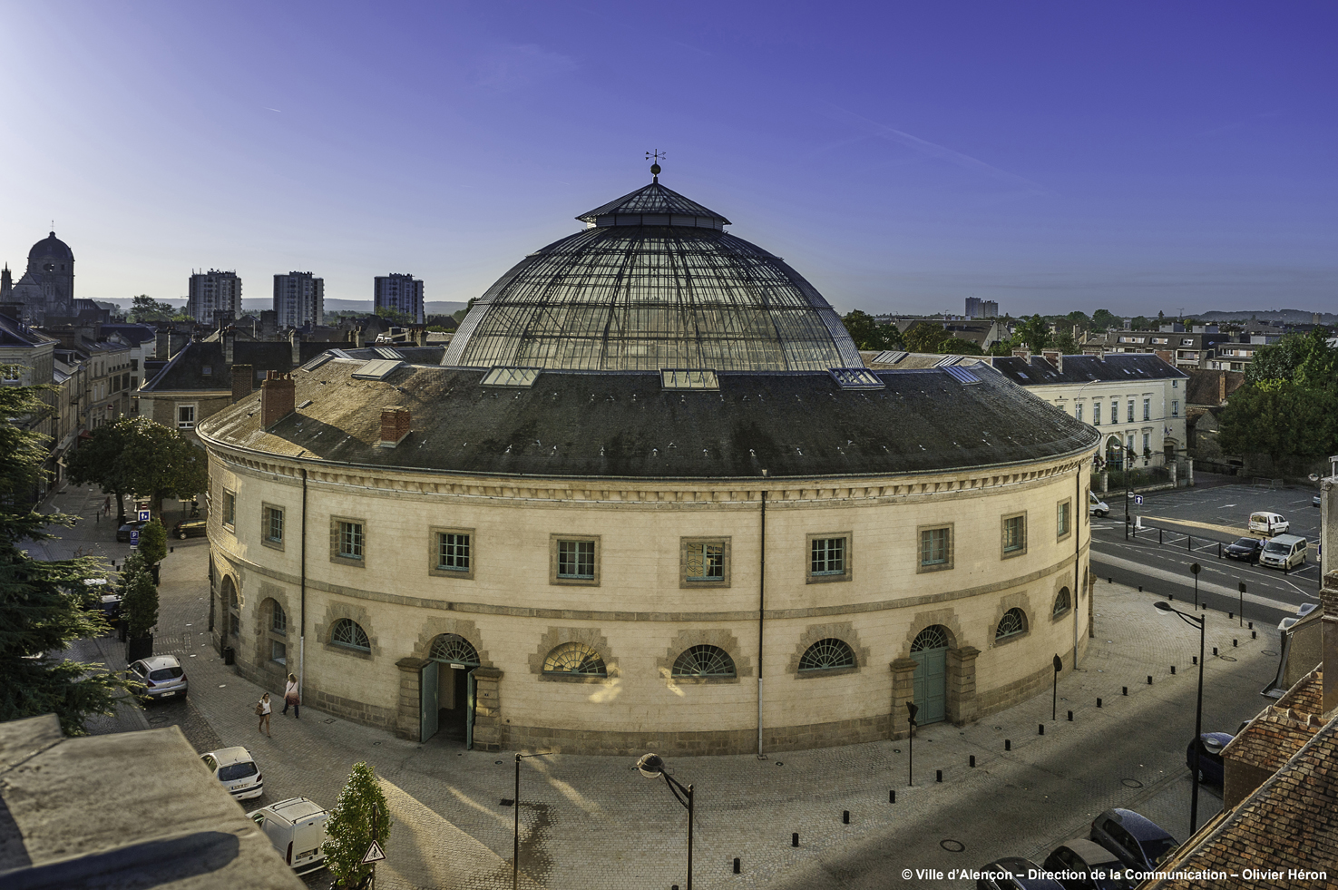 Construite fin XVIIIe - début XIXe, elle est ouverte au commerce des grains en 1812. L'architecture circulaire, voulue par son architecte, Joseph Beerthélemy, déconcerte par son audace. La modernité embellira très vite l'édifice. Premier bâtiment doté du gaz en 1860, il s'orne en 1865 d'une coupole de verre, à l'instar de la Halle aux Blés de Paris. Au XXe siècle, elle connaît de multiples affectations : hôpital pendant la Première Guerre mondiale, elle devient le lieu de nombreux évènements : foires, marchés, expositions… Inscrite aux monuments historiques en 1975, elle est entièrement réhabilitée et mise en lumière en 2000. La Halle au Blé est aujourd'hui un bâtiment dédié au multimédia accueillant notamment l'Échangeur de Basse-Normandie, centre de veille au service des nouvelles technologies. Elle accueille également la Cité des métiers et le CLIC (Centre Local d'Information et de Coordination) Centre Orne. Ouvert tous les jours de 9h à 12h et de 14h à 18h. Visite libre.